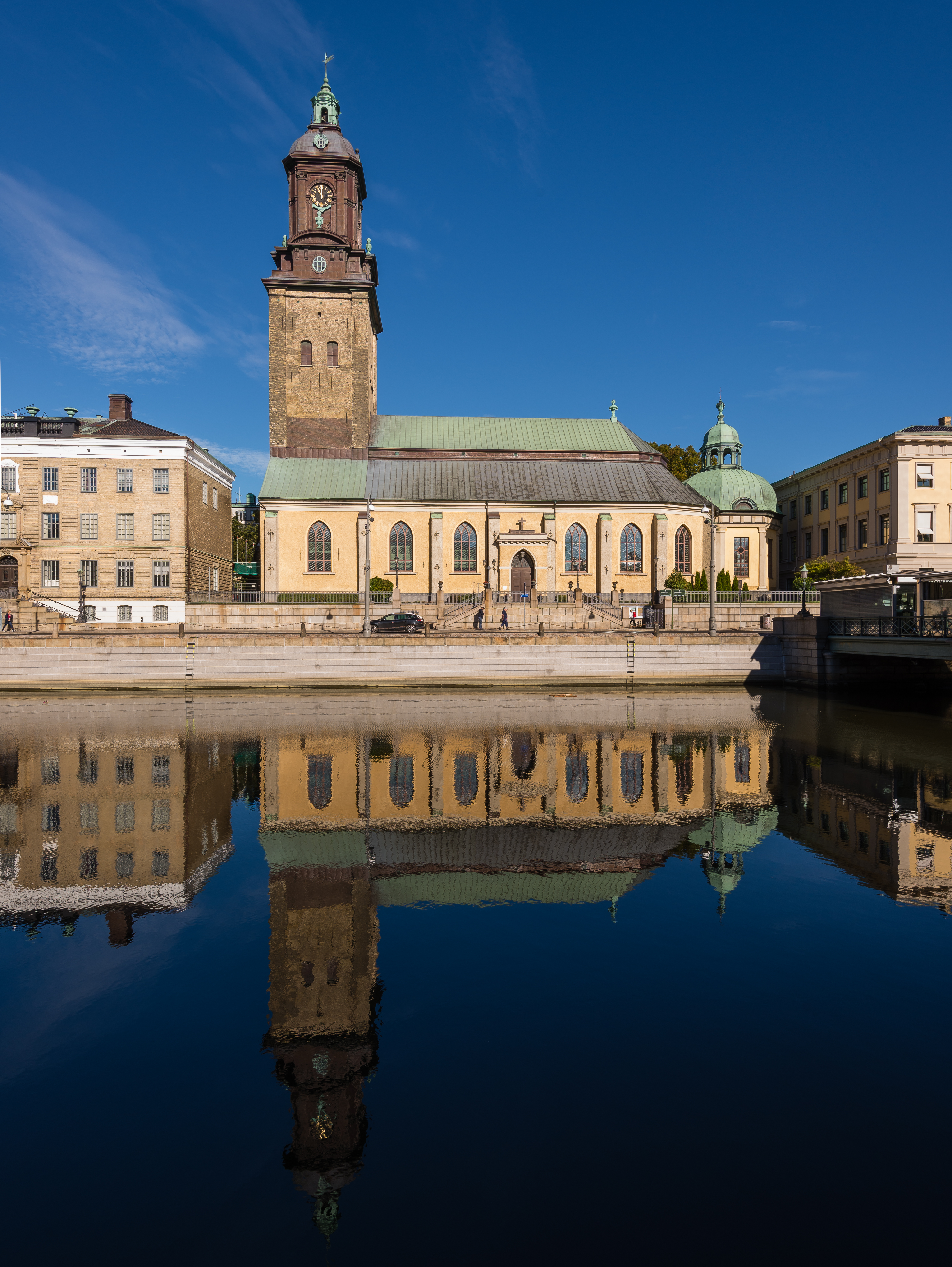 Christinae Church (also know as the German Church). in Gothenburg, Sweden.